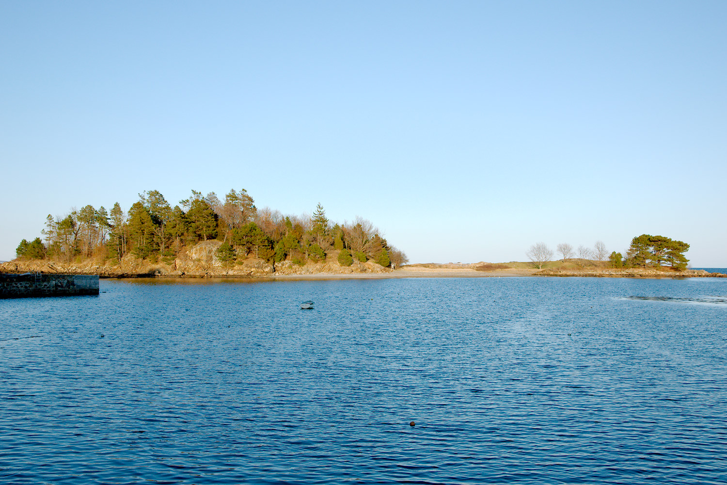 Brown's Island, formally known as Crowninshield Island, in waters off of Marblehead, Massachusetts